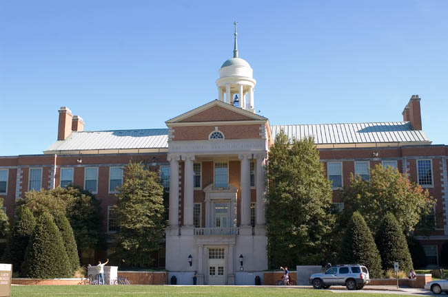 Picture of Z. Smith Reynolds Library.